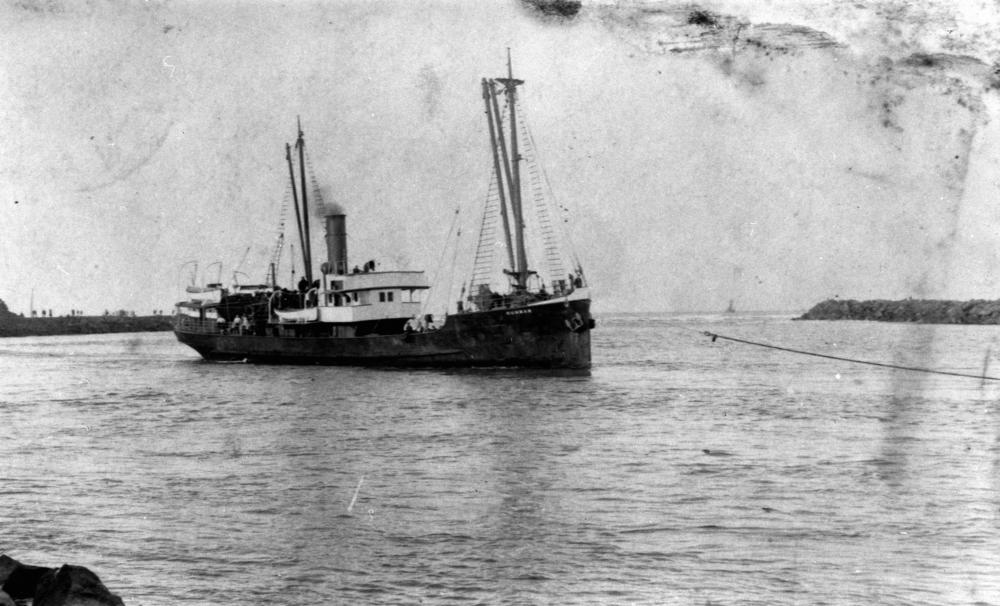 Gunbar (ship)